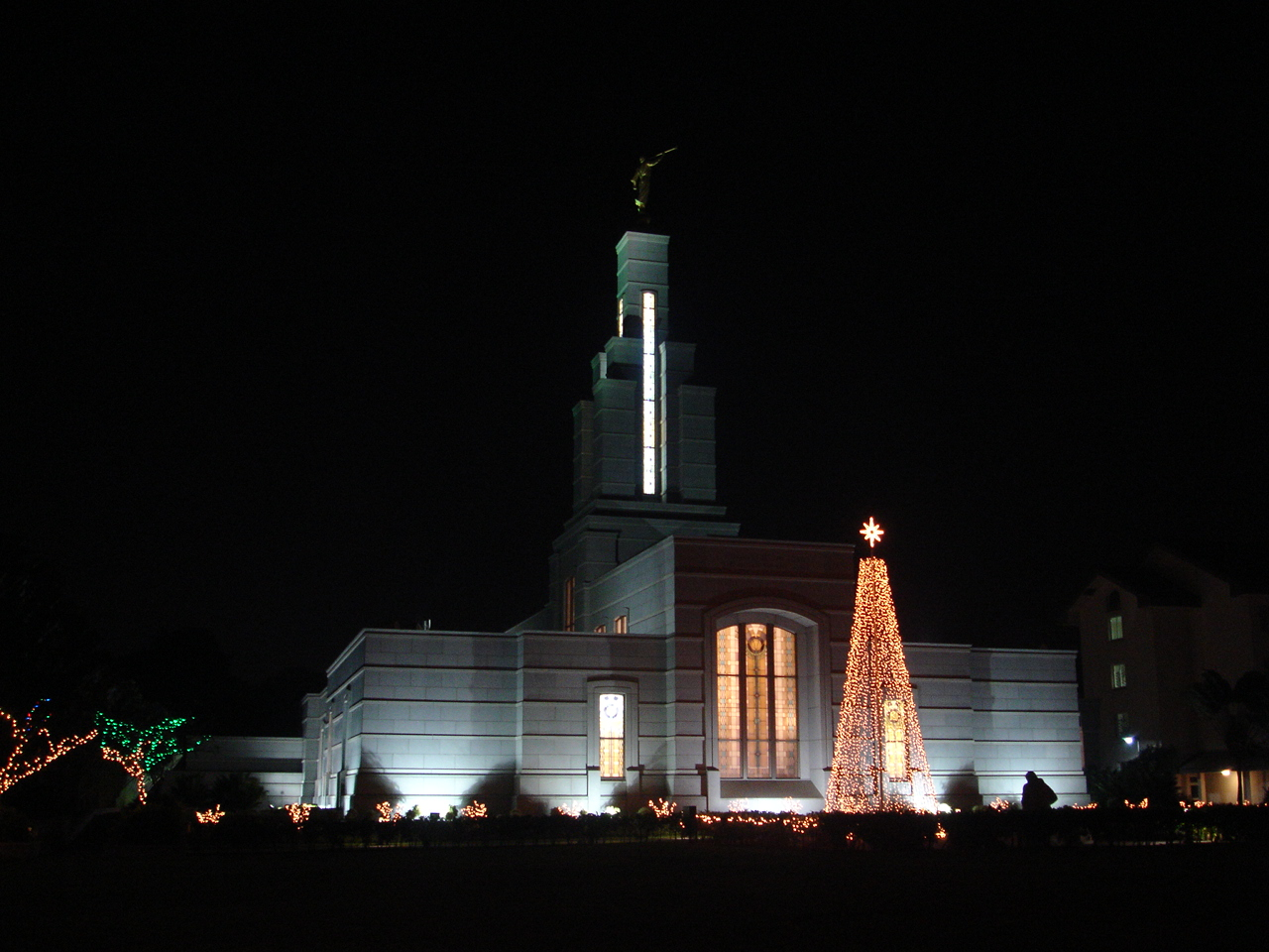 The Accra Ghana Temple at night decorated for Christmas